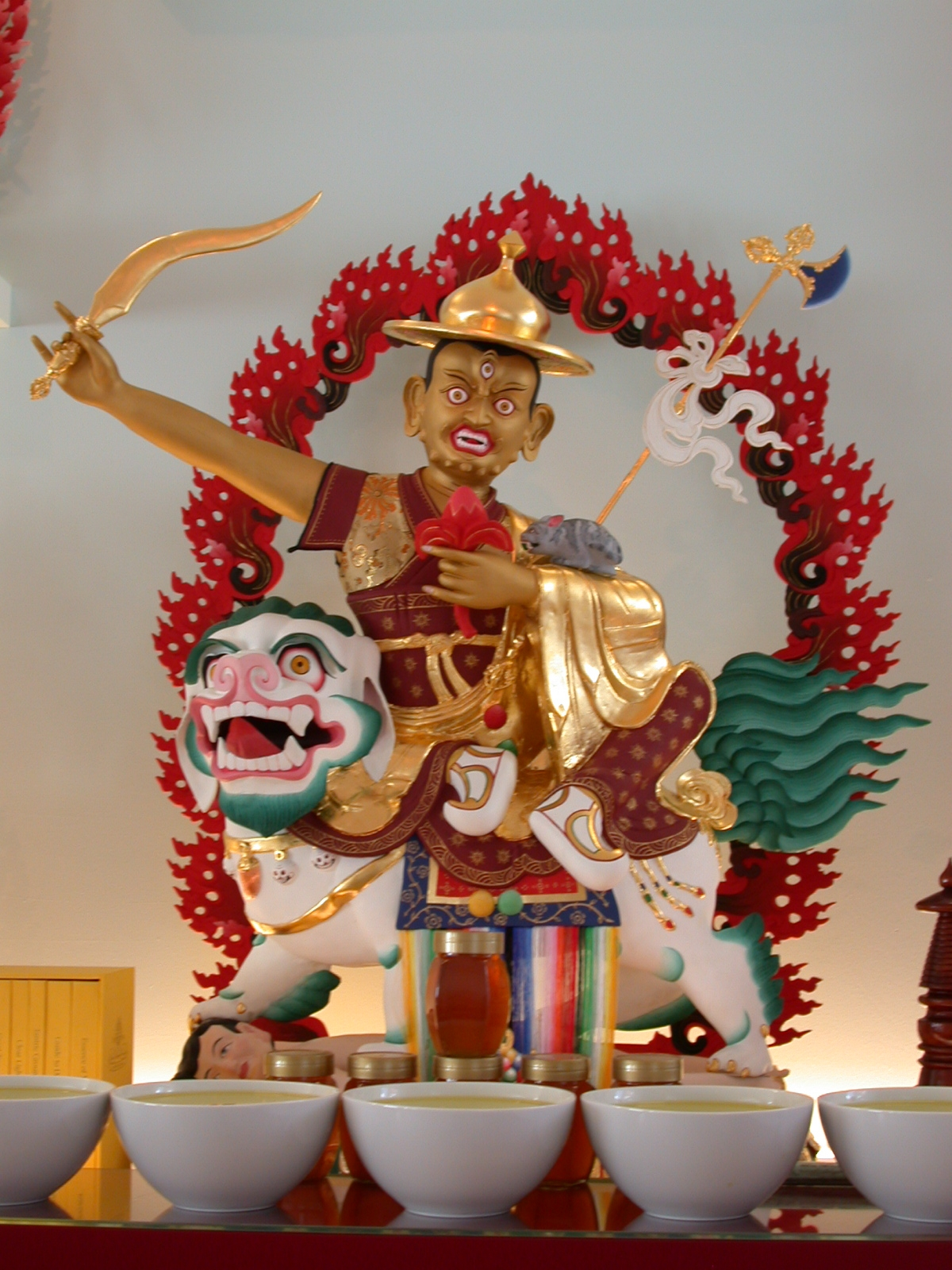 Dorje Shugden Statue im buddhistischen Tempel Zürich